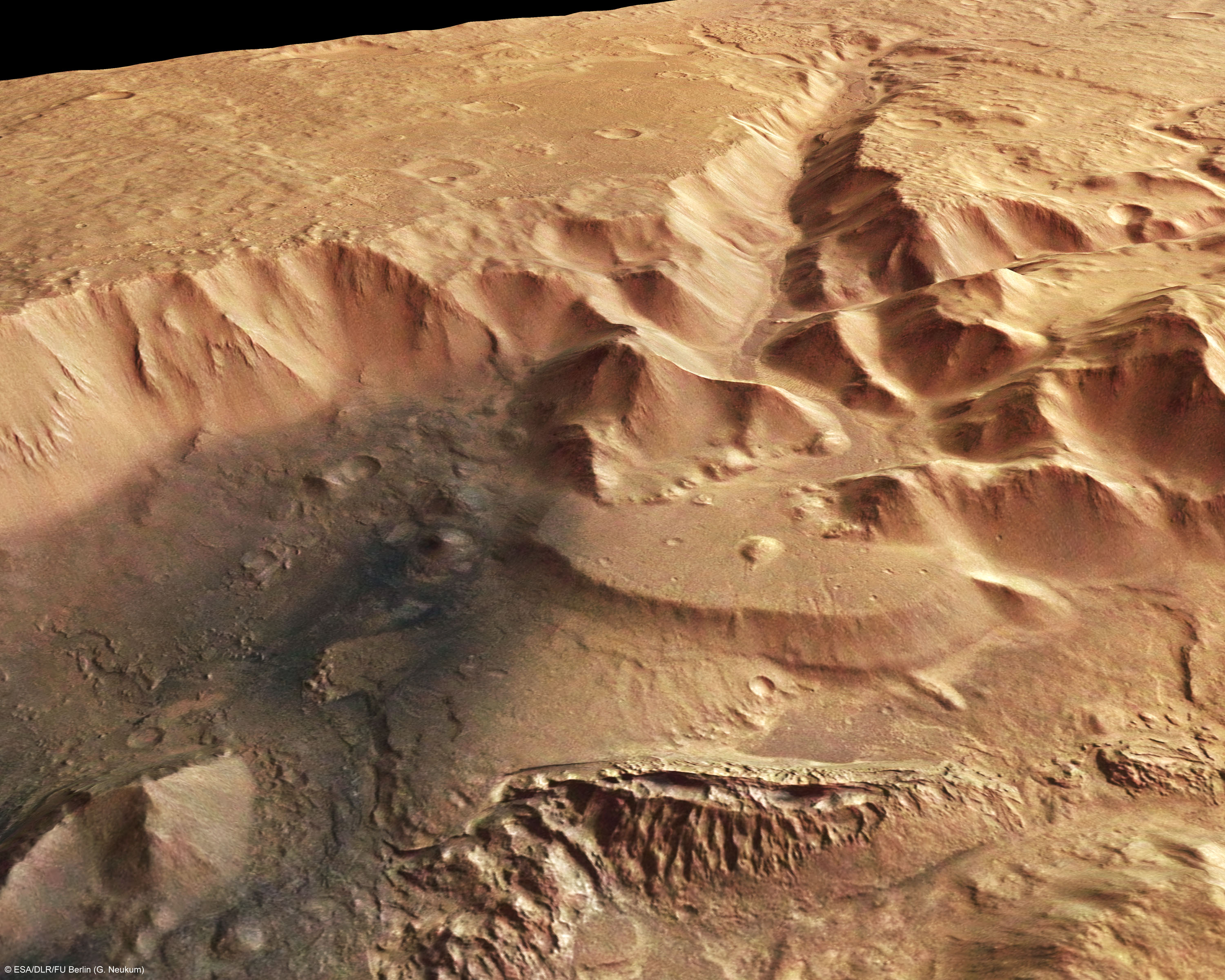 The High Resolution Stereo Camera on board ESA’s Mars Express orbiter imaged Nepenthes Mensae, a river delta on Mars, on 22 January 2008. The data was acquired in the region lying at approximately 3° north and 121° east with a ground resolution of 15 m/pixel.